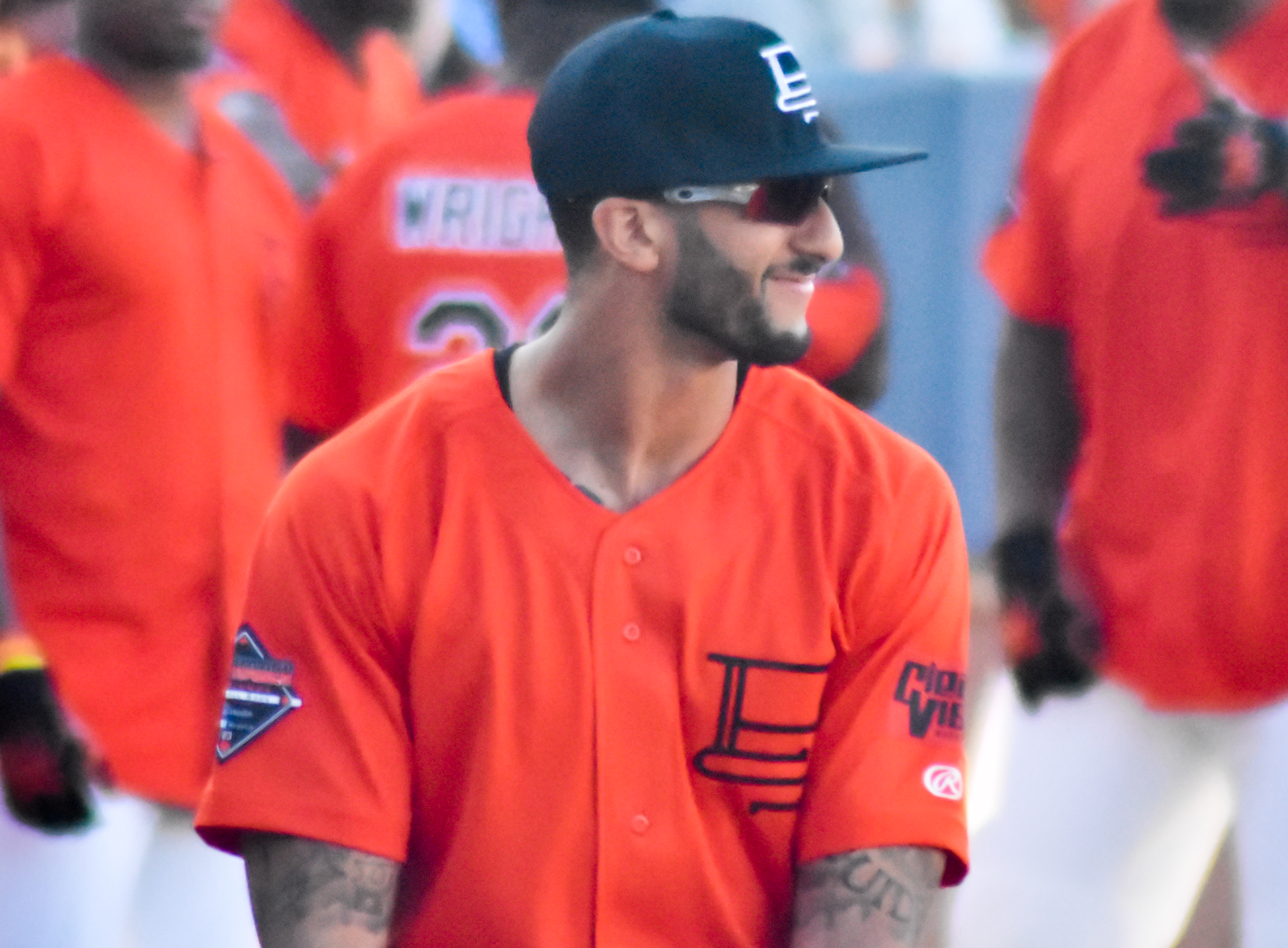 Colin Kaepernick